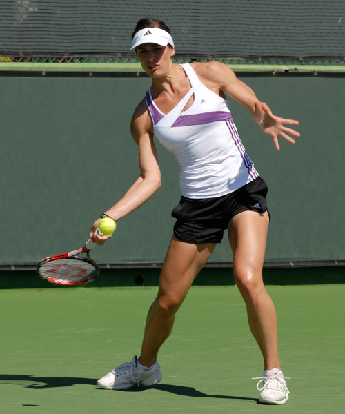 Andrea Petkovic hits a forehand (Indian Wells, 2011)